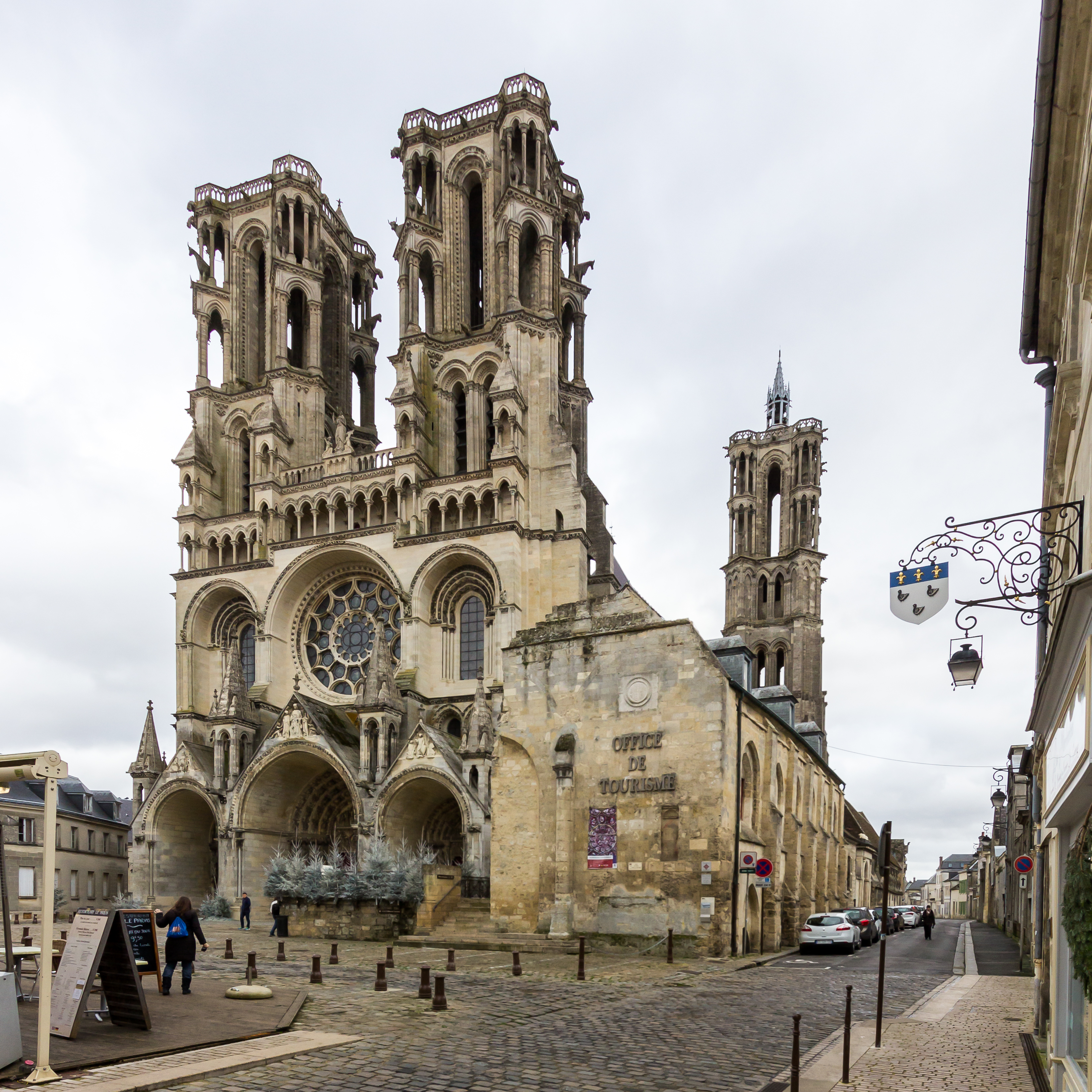 West facade of the Laon cathedral